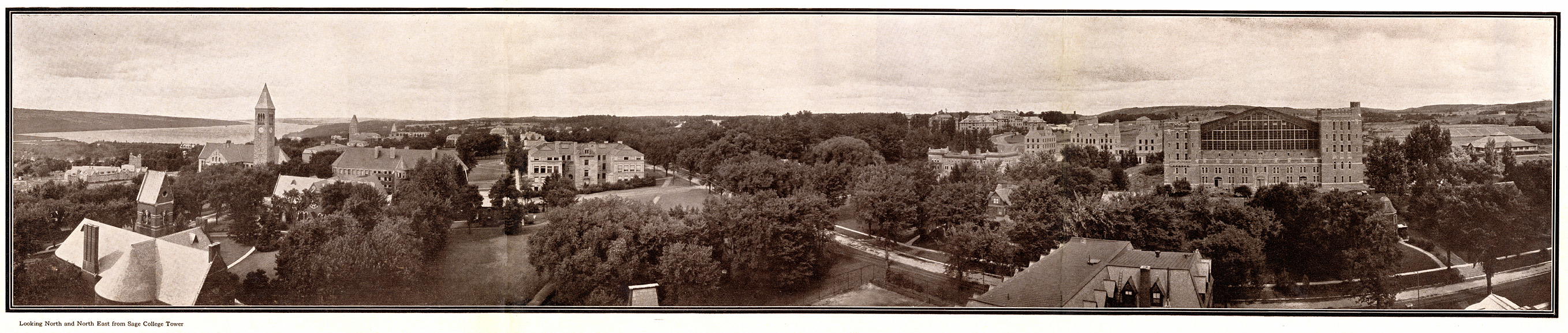 Cornell University in 1919